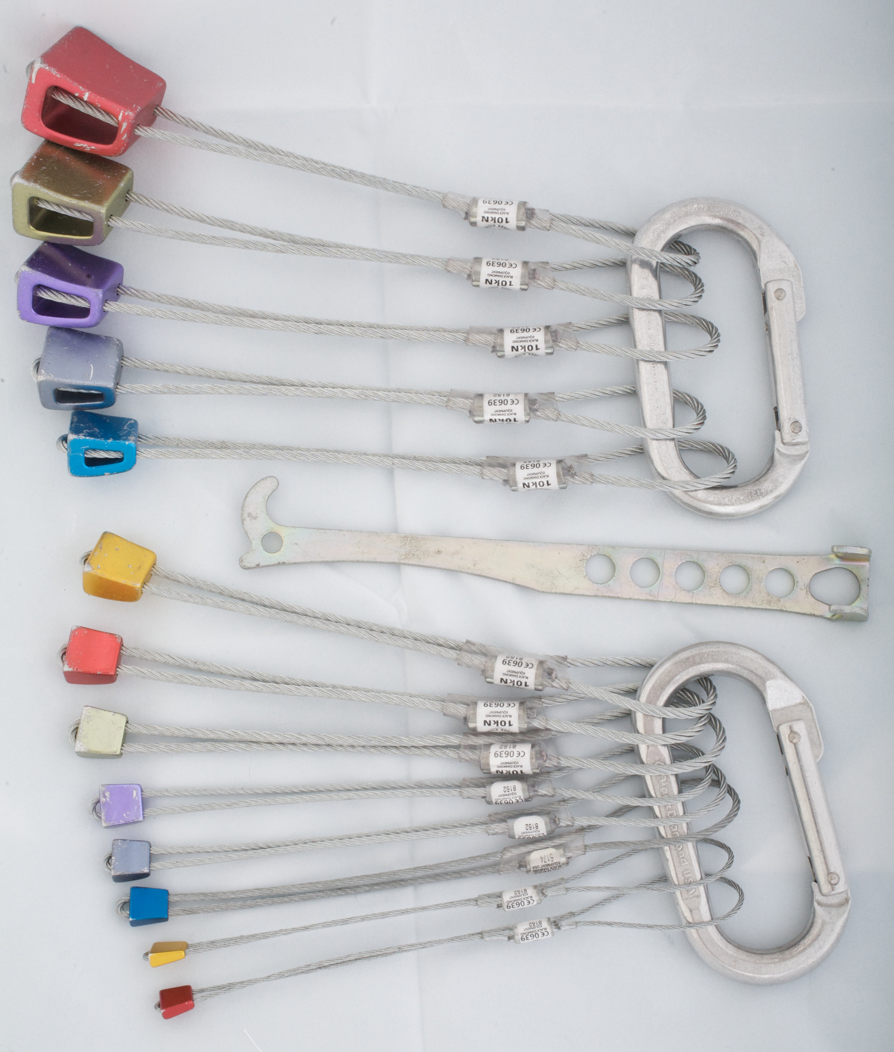 Various sized nuts for climbing along with a nut removal tool